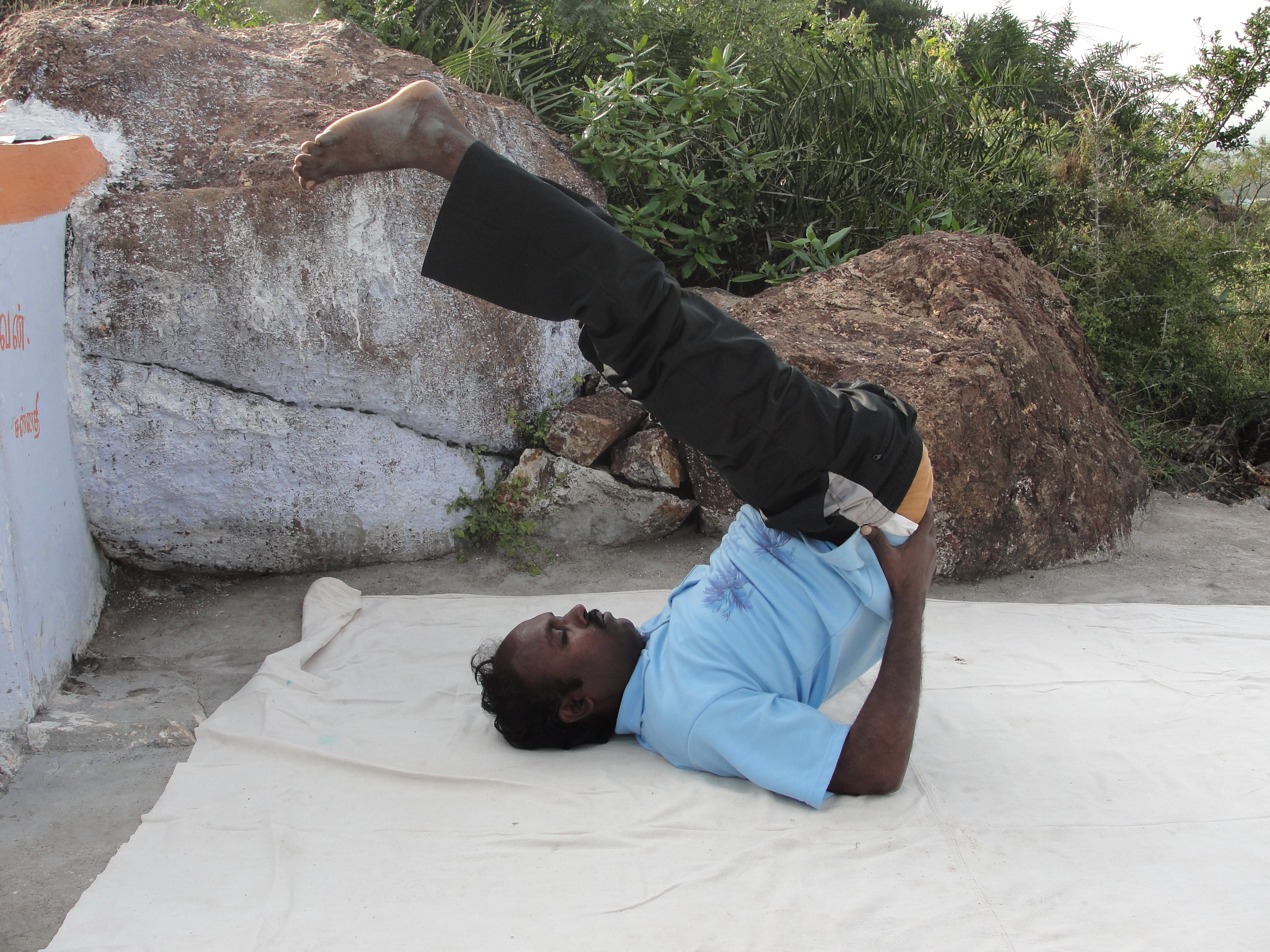 A style of viparitakarani